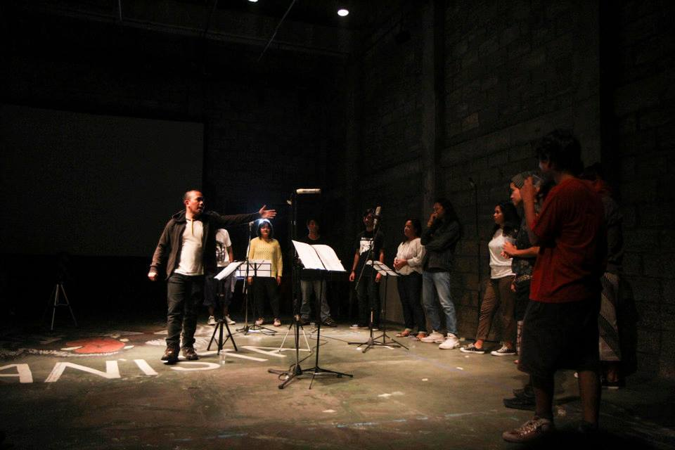 The first class of Raung Jagat.